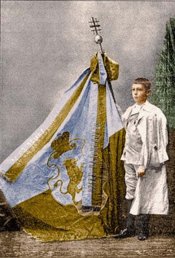 The image of the traveler Nuzo Dorozhinsky together with the pilgrimage flag during the Ruthenian pilgrimage to the Holy Land.